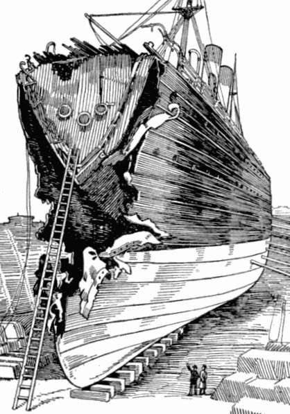 Illustration of damage to the bow of the SS Florida following its collision in 1909 with the SS Republic.